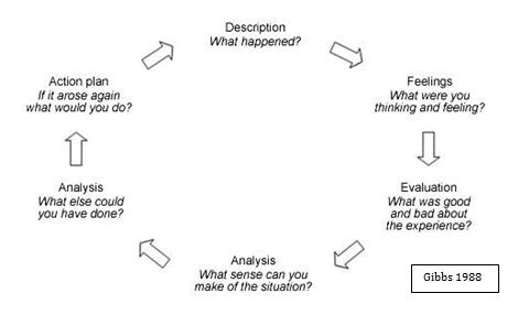 Steph's Gib Model